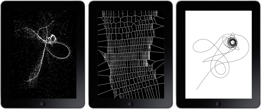 Gravilux, Bubble Harp, and Tripolar. Apps for iPhone, iPad, and iPod Touch. Released for iOS 2010 and 2011. Originally created 1997-2002.